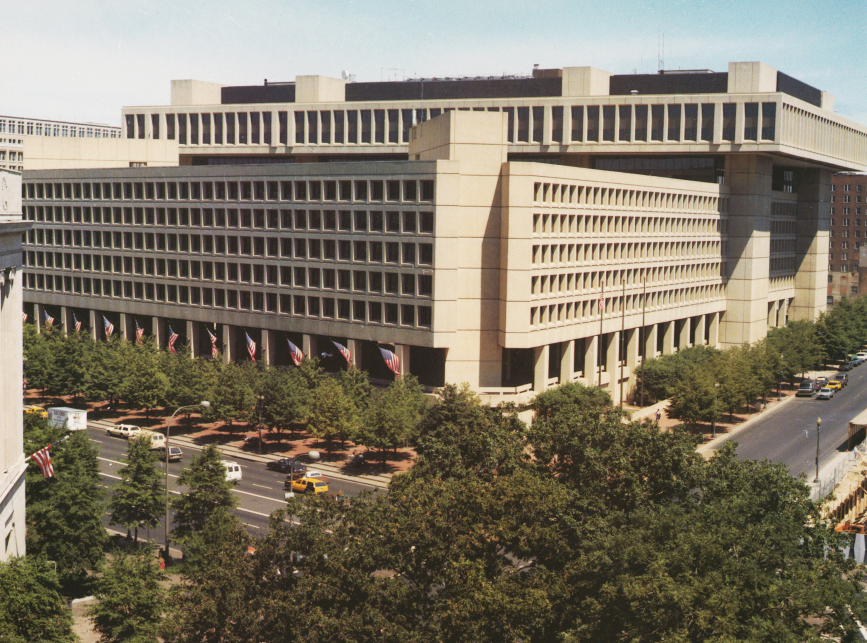 FBI Headquarters.